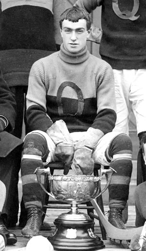 George Richardson and the Queen's University Golden Gaels with the 1906 Intercollegiate championship trophy.